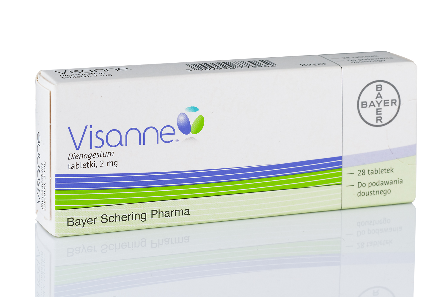 visanne